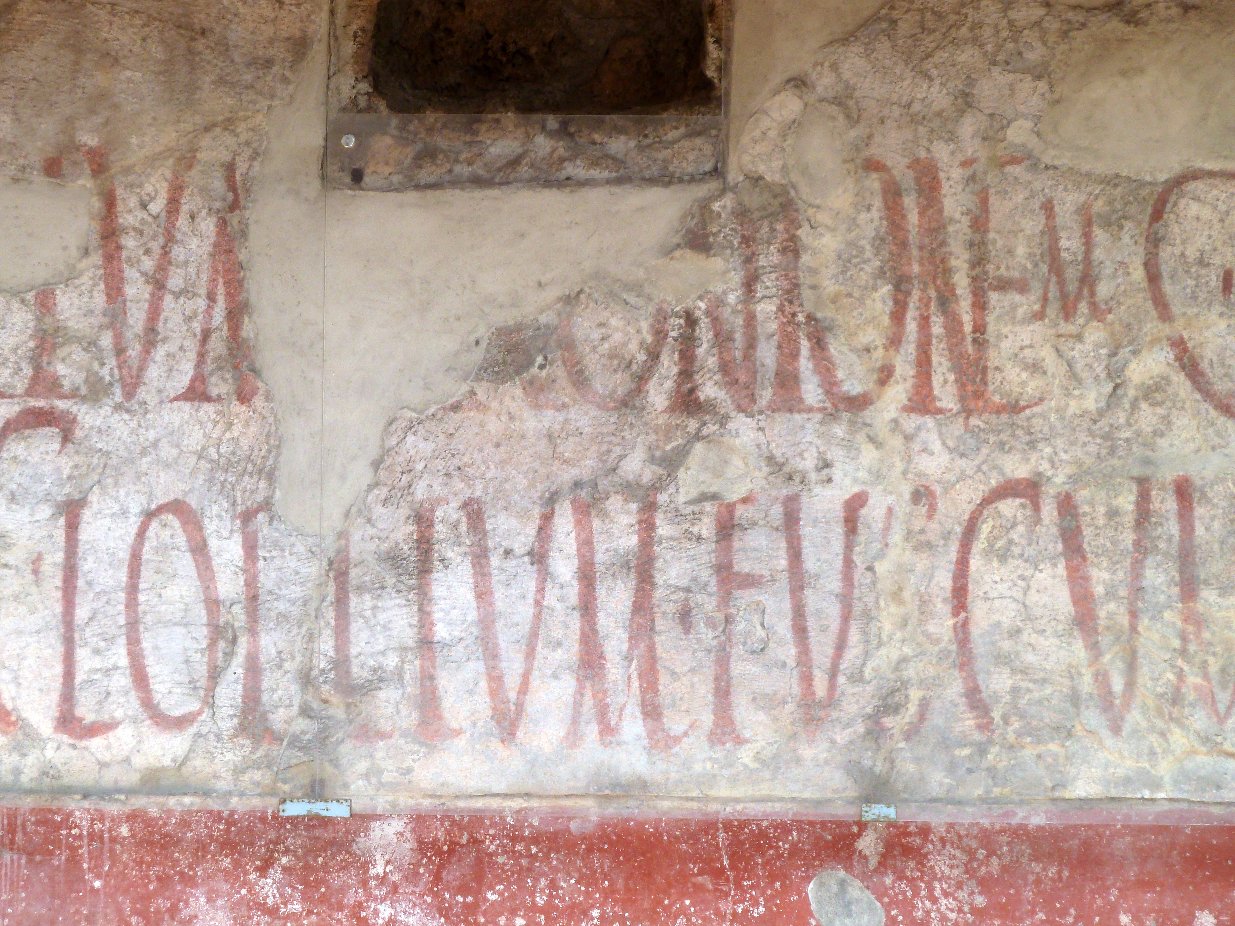 Wall writing